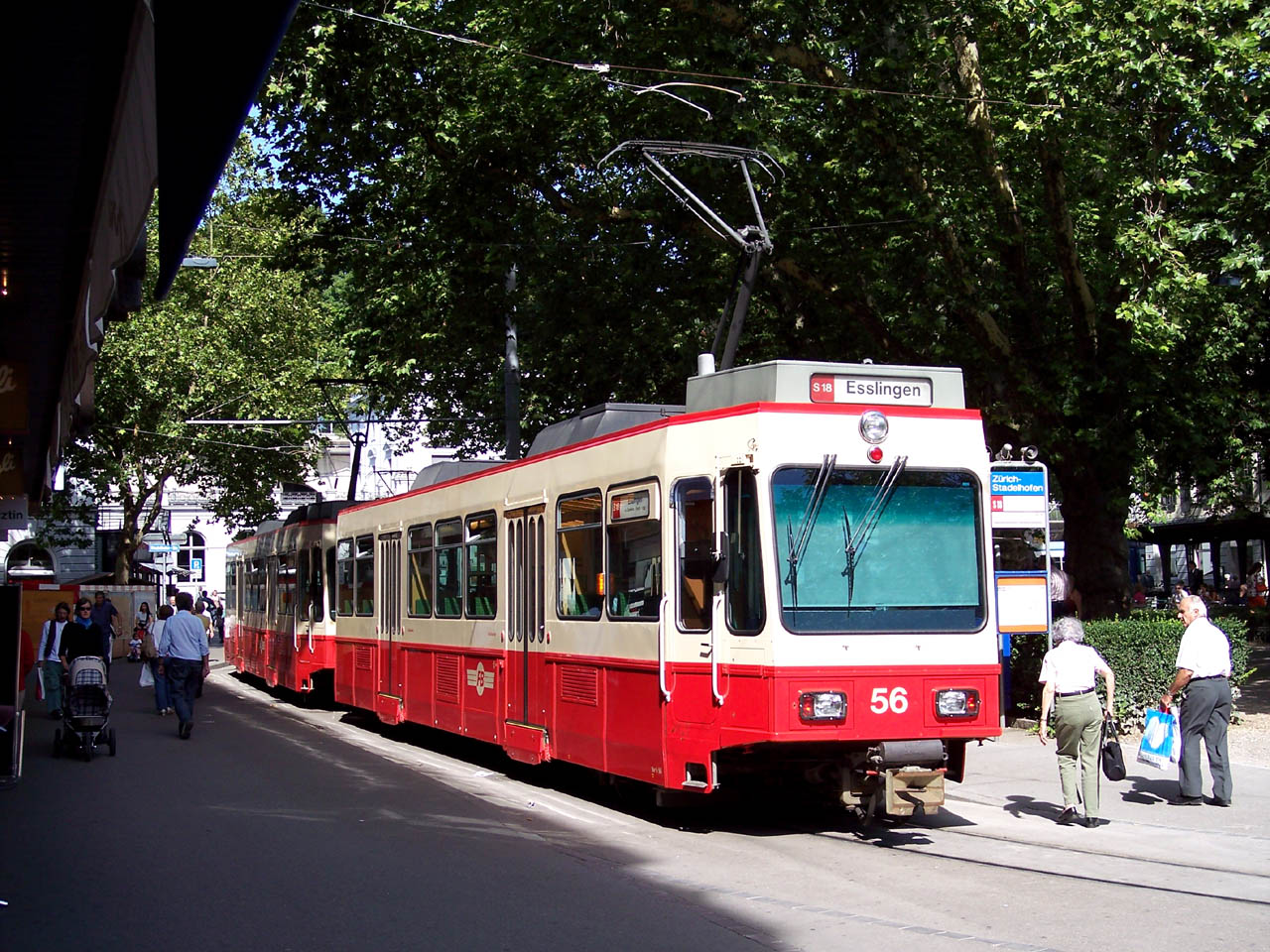 A Forchbahn interurban train waits for departure at Bahnhof Stadelhofen in Zurich, tailed by a Schindler/SIG Be 4/4.